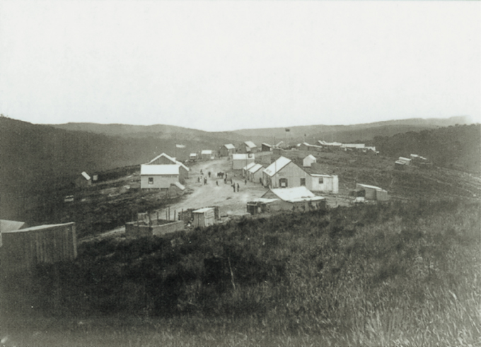 The developing town of Millwood (circa 1870s). The area around the town was covered with fynbos